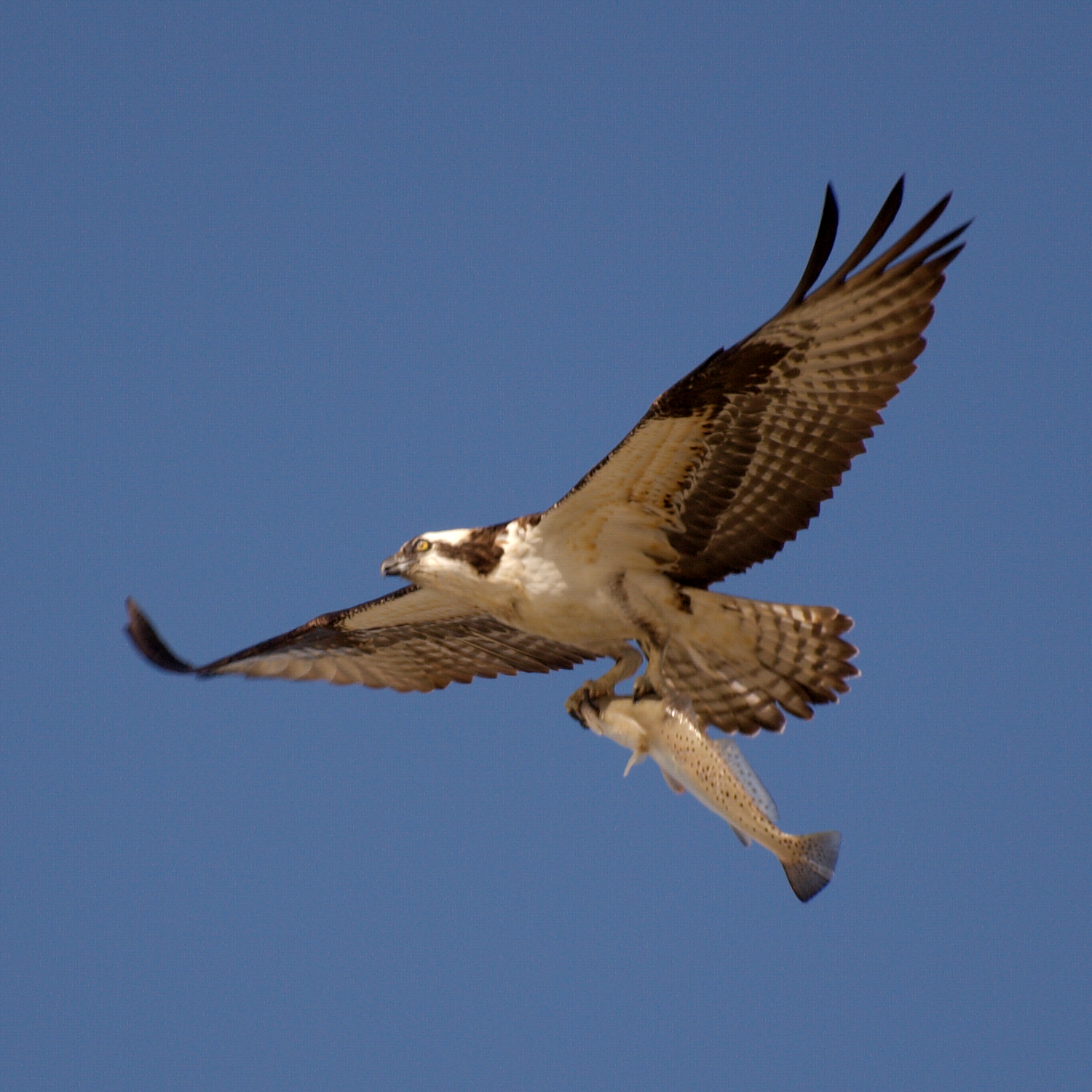 Osprey (sometimes known as the sea hawk) flying with a fish held in its claws. Photograph taken in Texas, USA.